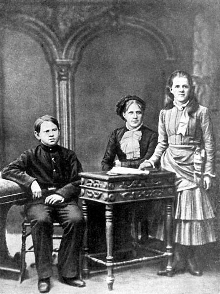 Anna with her and Dostoevsky's children, Fyodor Fyodorovich and Lyubov Fyodorovna.